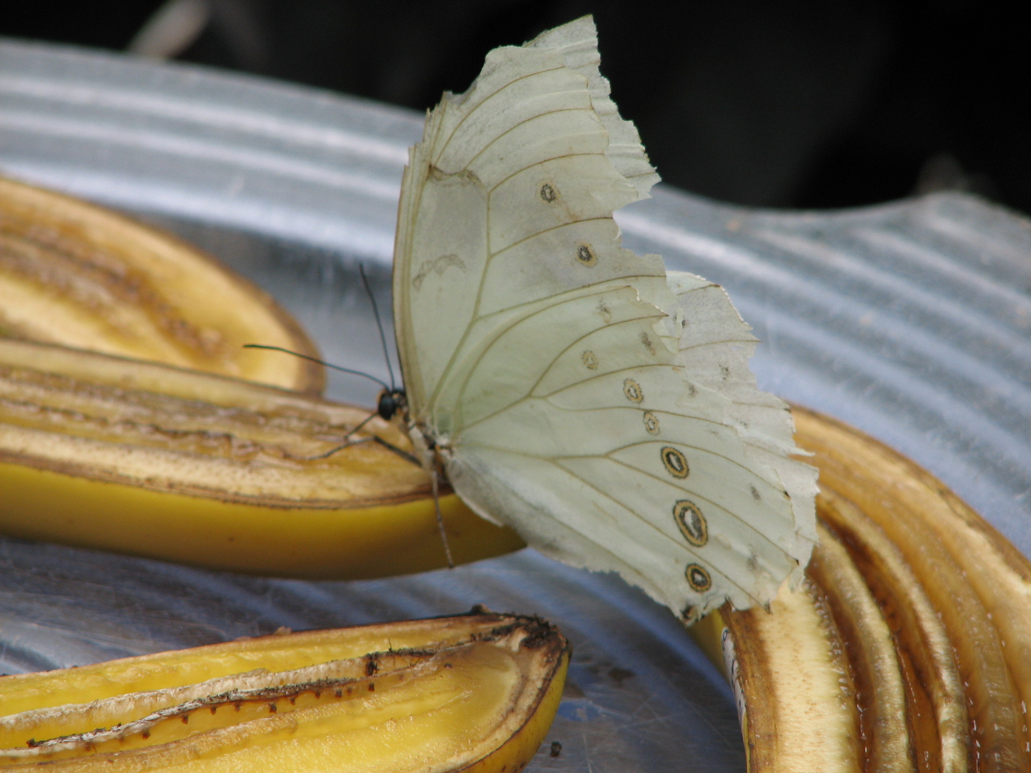 Image taken at Butterfly World Morpho polyphemus, White Morpho butterfly